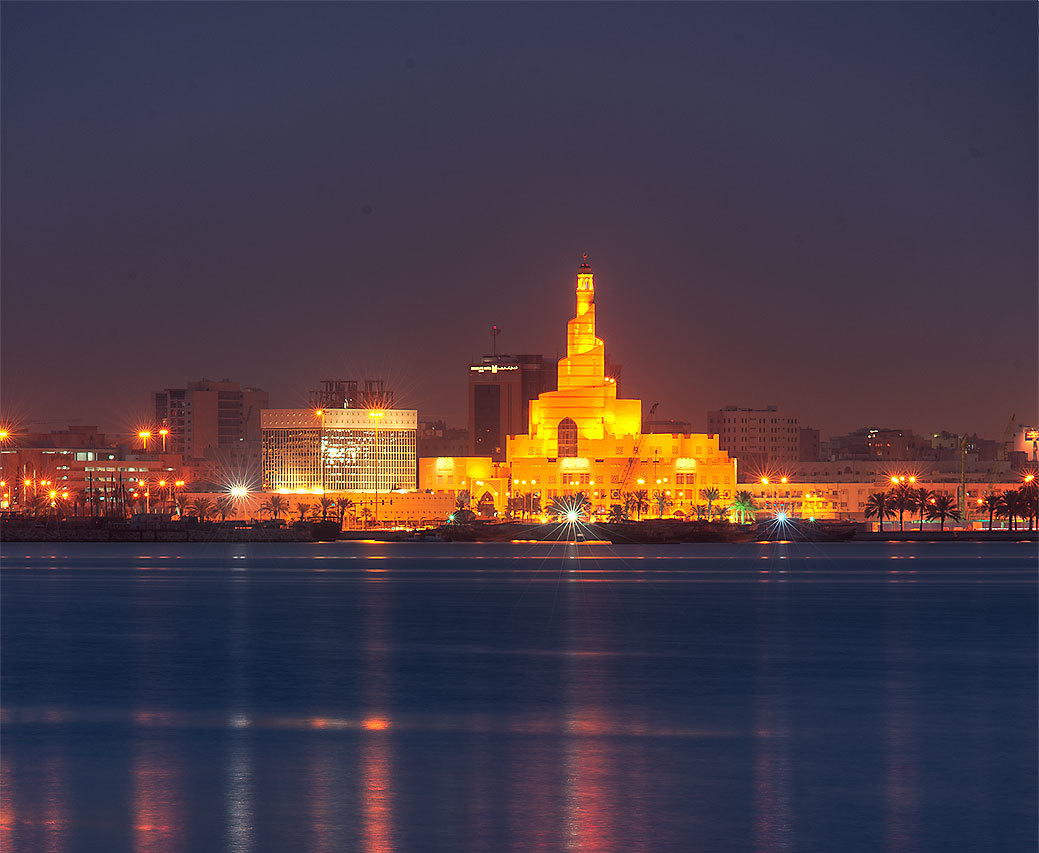 Abdulla bin Zaid Al Mahmoud Islamic Cultural Centre (Spiral Mosque, Fanar Mosque) from Corniche promenade. Doha, Qatar.